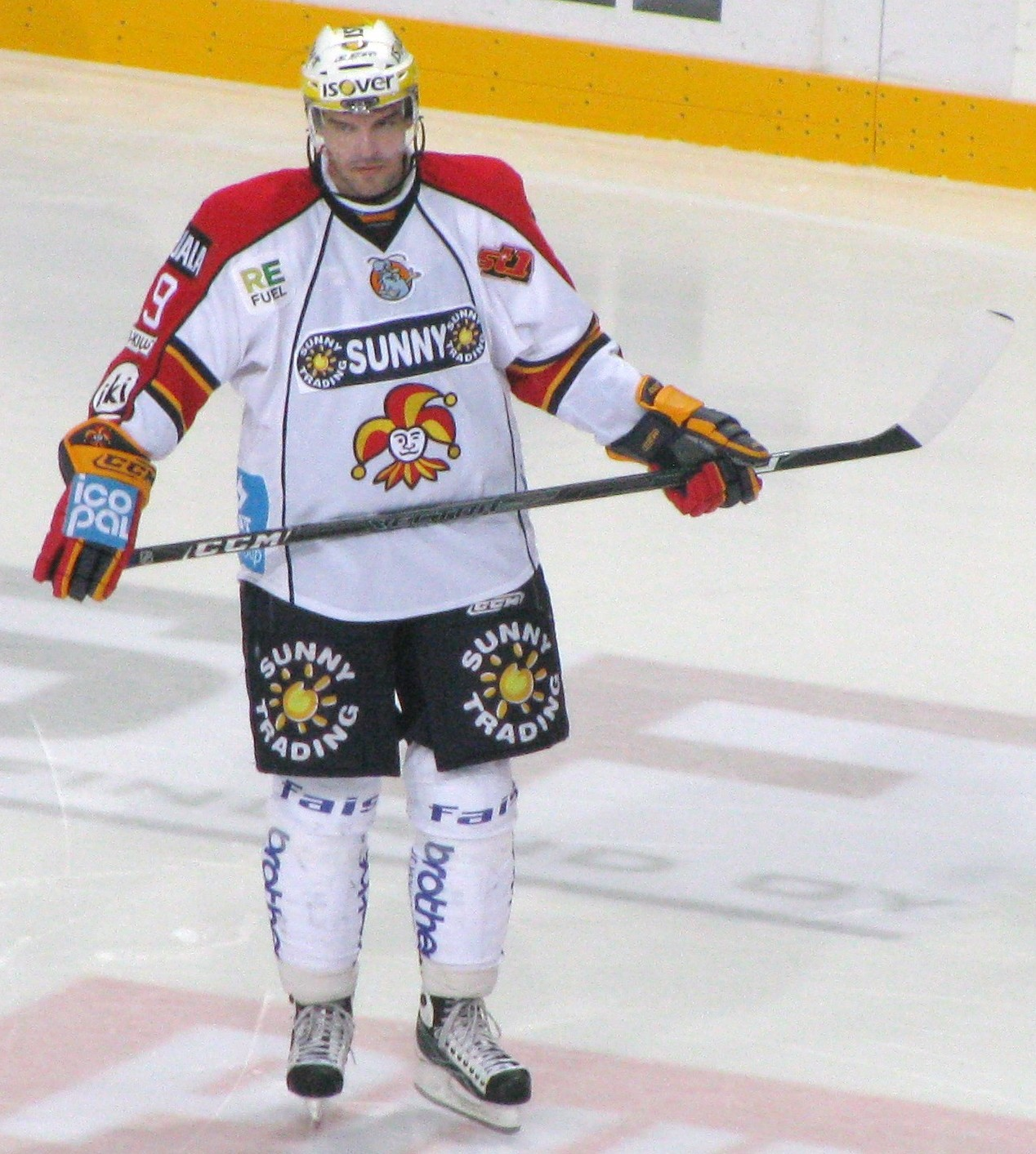 Fredrik Bremberg (Jokerit) in a match against HIFK.